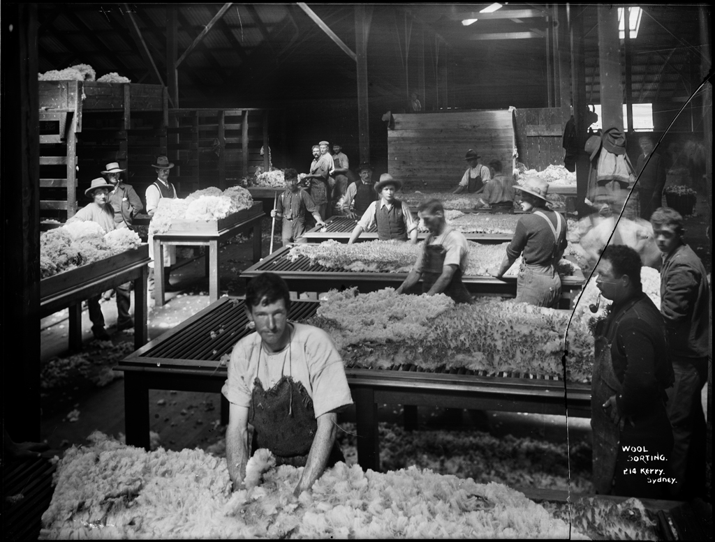 'Rural Life' Pictures from The Powerhouse Museum This file was posted to Flickr by The Powerhouse Museum (See the archive of their website for further information). Many thanks to the Powerhouse Museum for helping release this wonderful material. This tag does not indicate the copyright status of the attached work. A normal copyright tag is still required. See Commons:Licensing for more information.